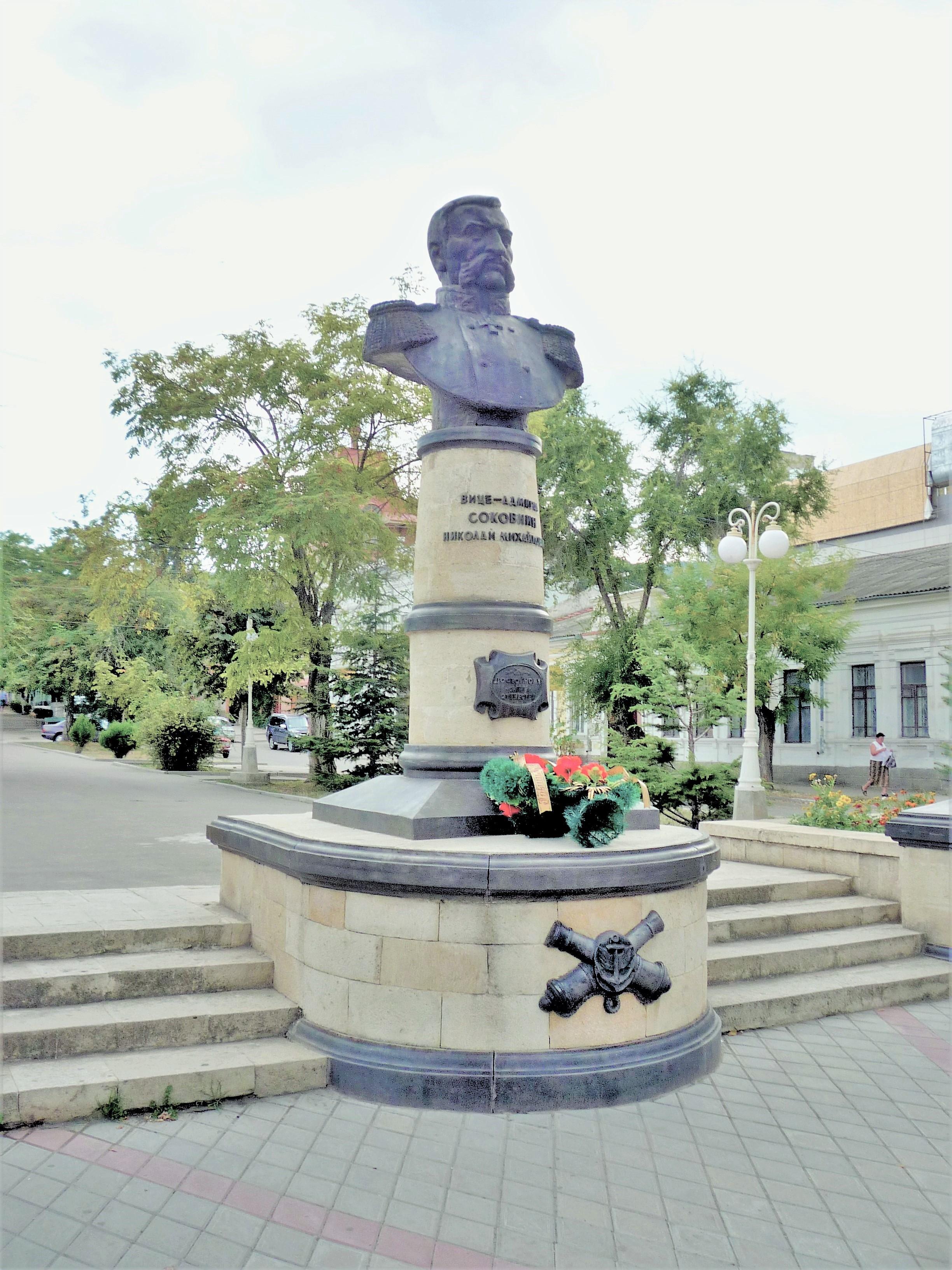 Vice-admiral Nikolai Sokovnin memorial in Theodosia. Crimea.